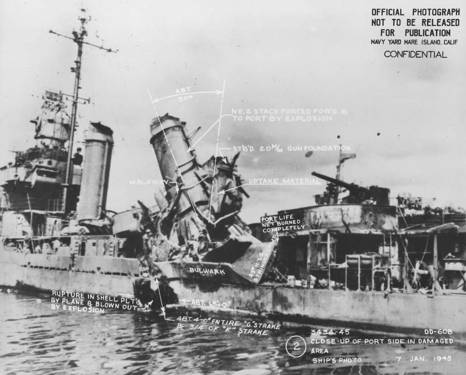 USS GANSEVOORT destroyed by Kamikaze Attack